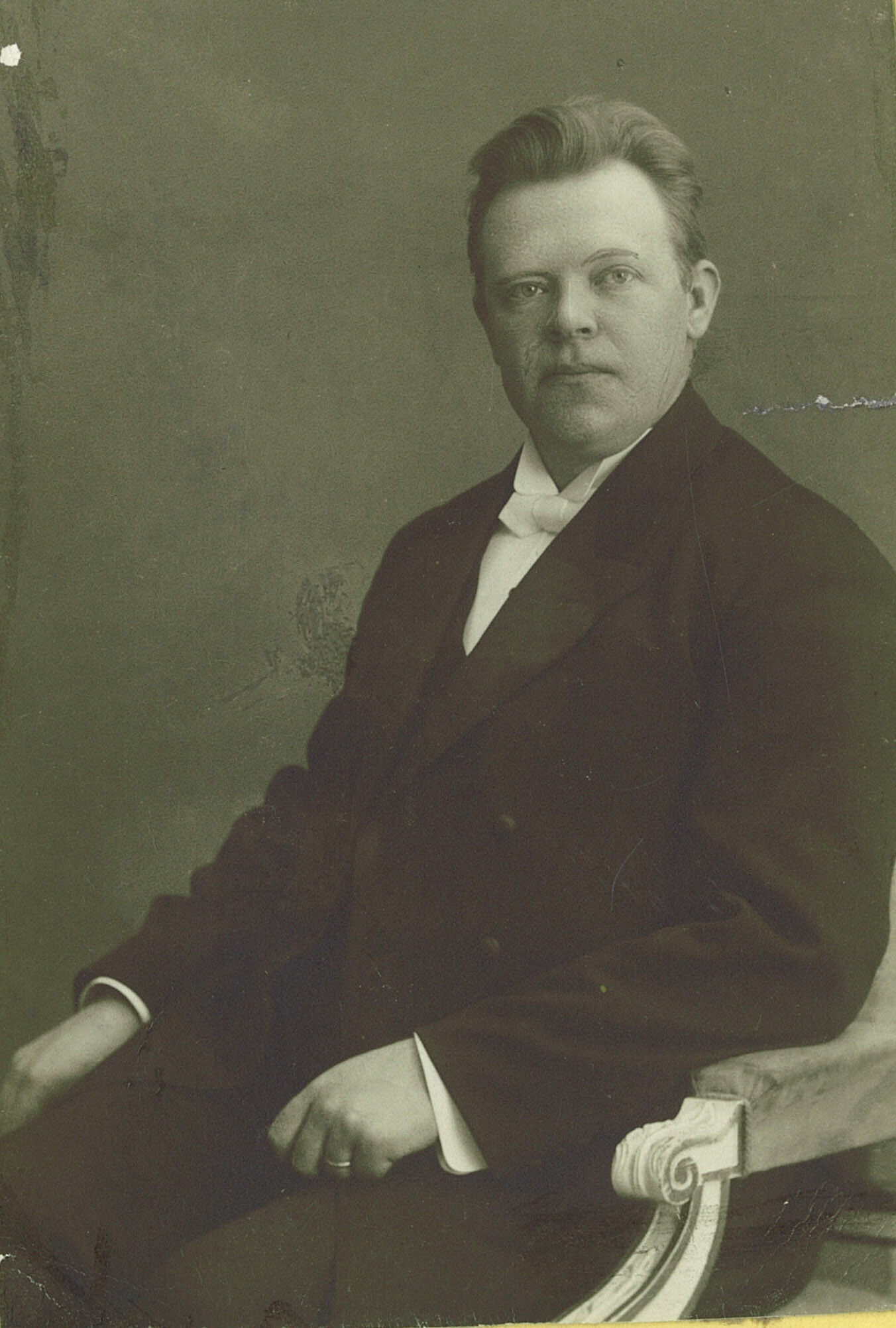 Swedish pastor (Mission Covenant Church of Sweden) Axel Andersson (1879-1959)